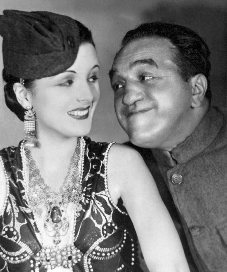 Mary Astor and Louis Wolheim in the American comedy film Two Arabian Knights (1927) - publicity still (cropped : see source)